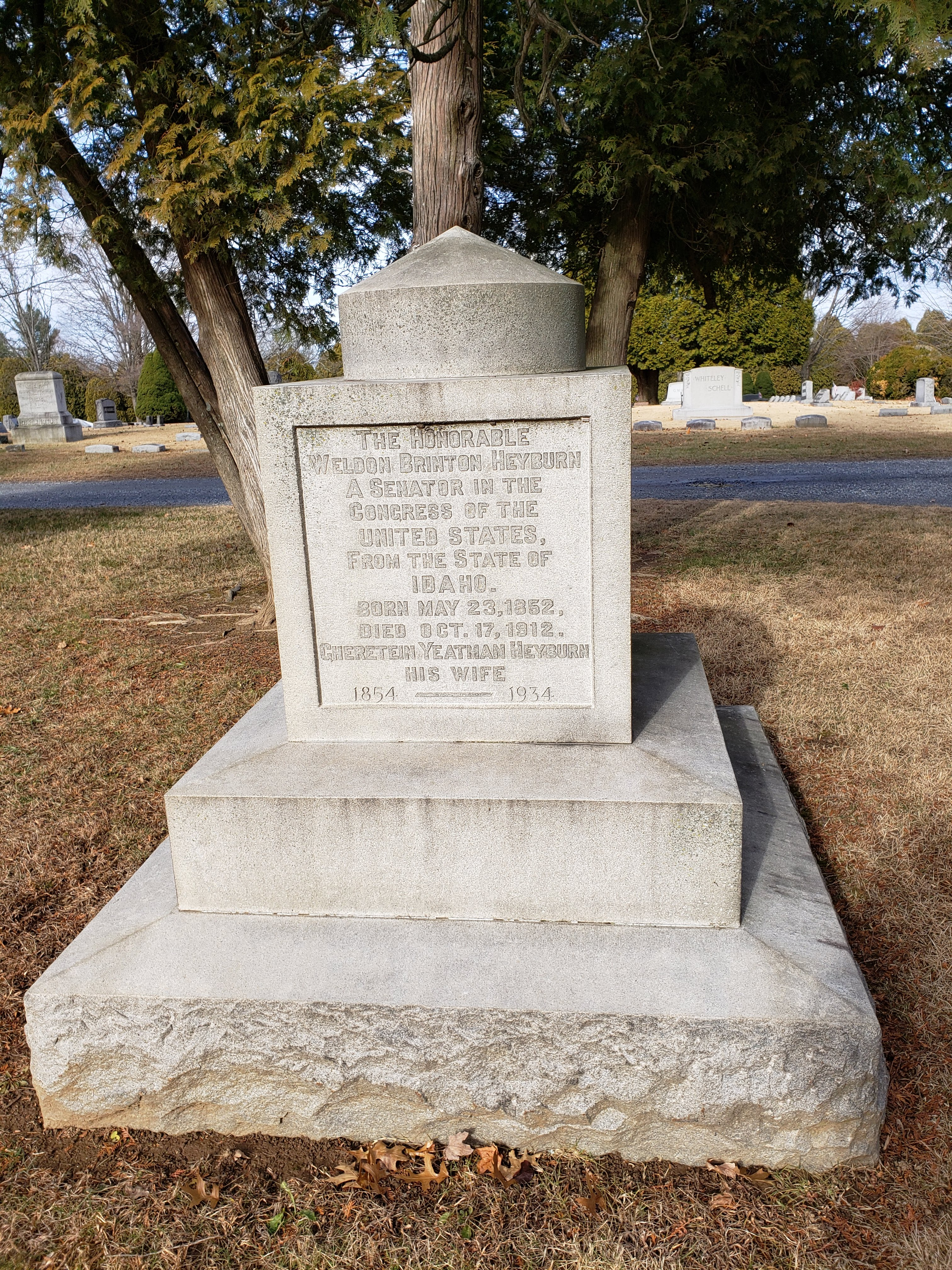 Weldon Brinton Heyburn Idaho Senator grave at Birmingham-Lafayette cemetery in Birmingham Township, Pennsylvania. Photo taken December 2019.